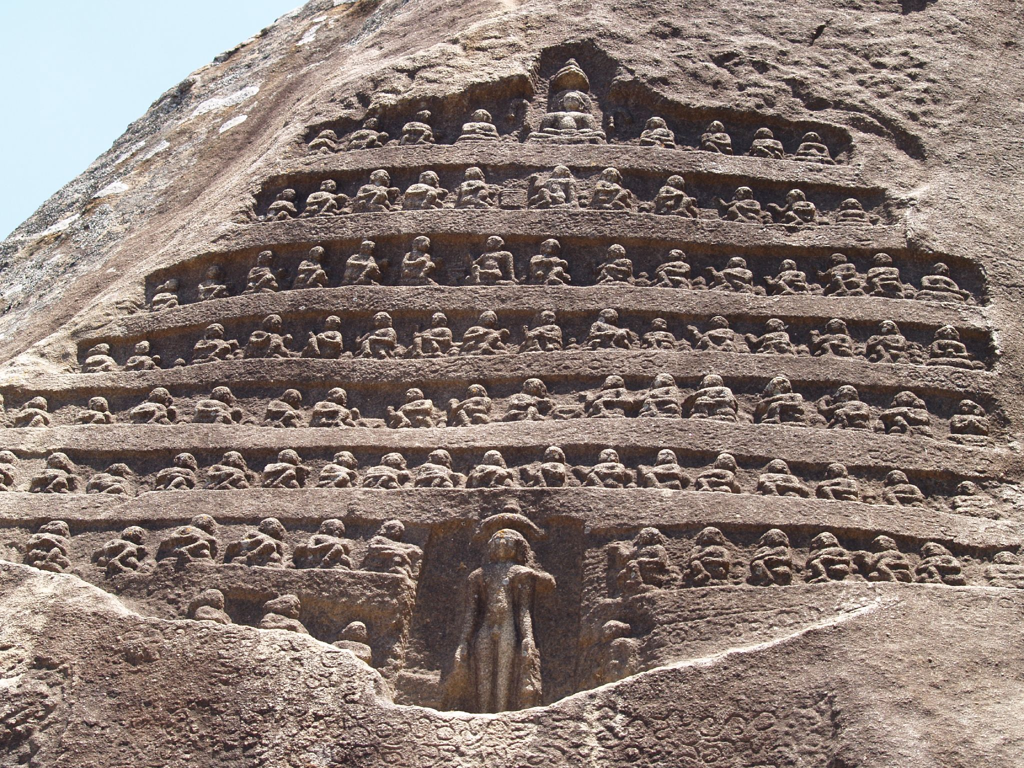 Reliefs at the temple wall of Shravanbelgola.